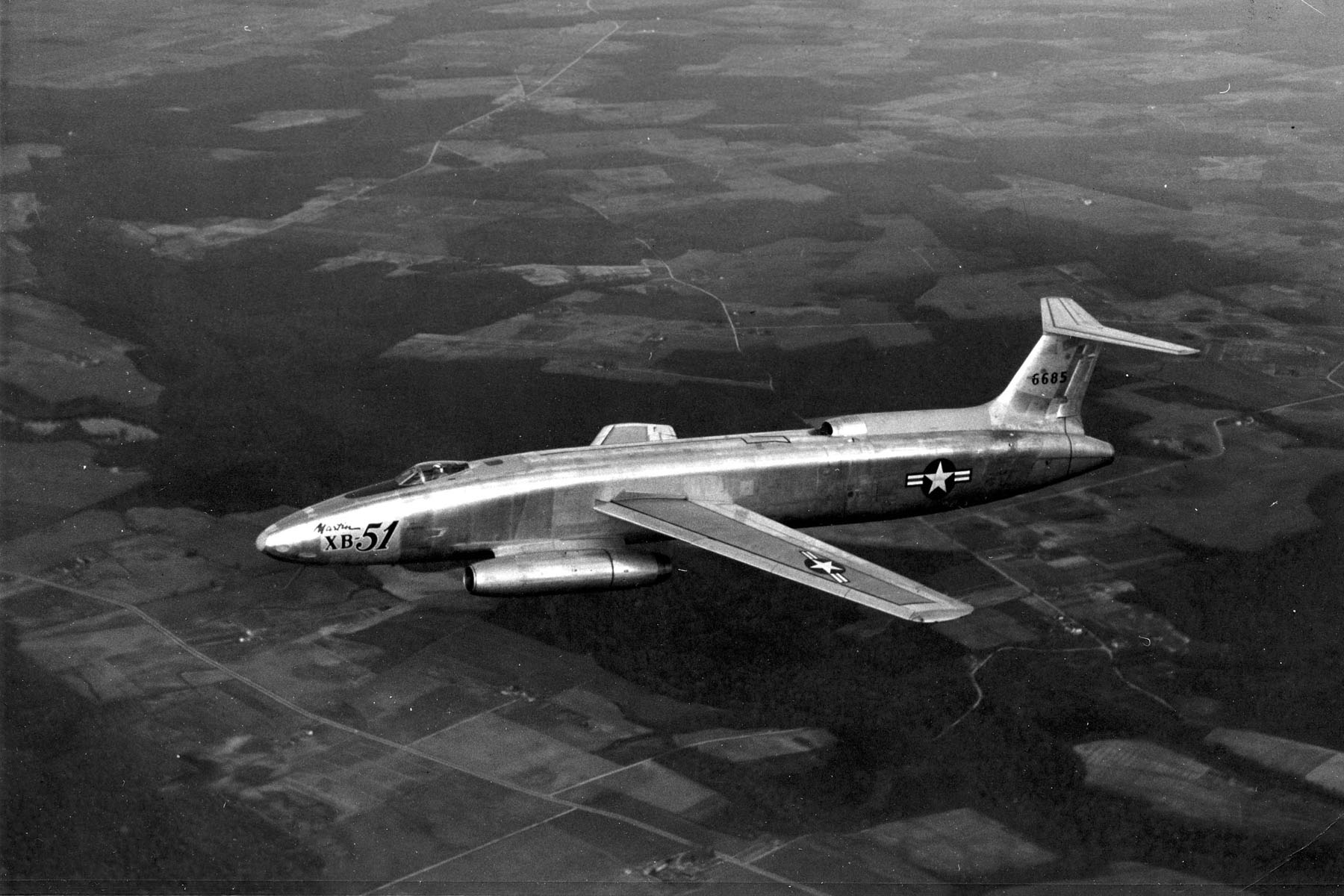 The first of two Martin XB-51 prototypes (s/n 46-585) in flight.